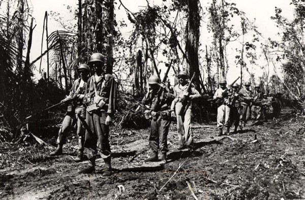 Soldiers of F Company, 20th Infantry Regiment, 6th "Sightseeing Sixth" Infantry Division move in to reinforce the attack positions on hill #225, Wakde/Sarmi, New Guinea.